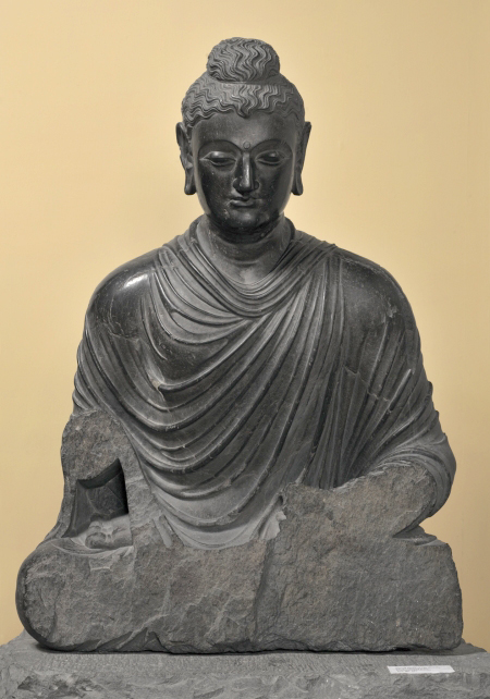 Buddha 94 X 68.5 cms c. 2nd century A.D. Provenance unknown Acc.No-563